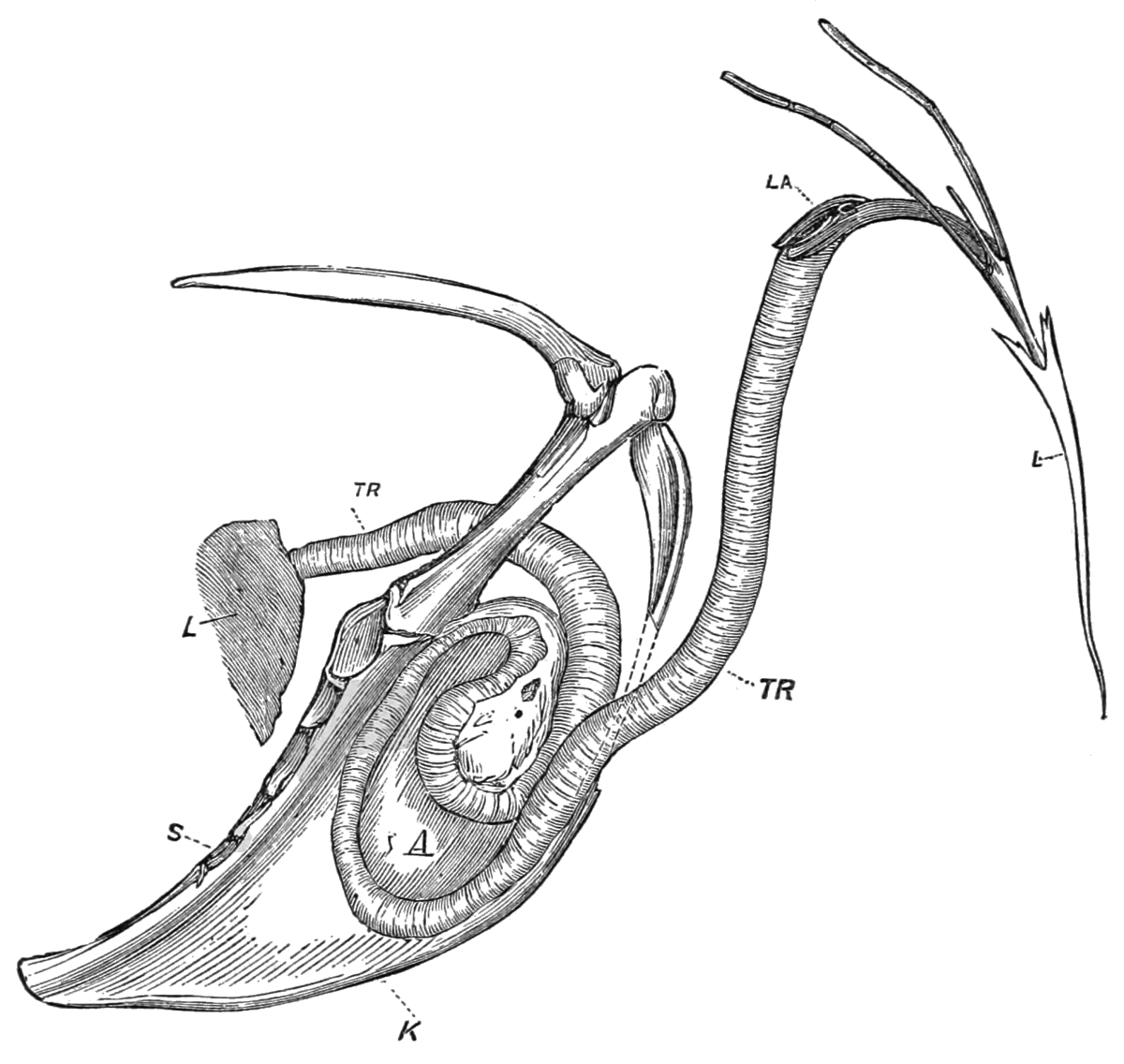 Crane throat structure